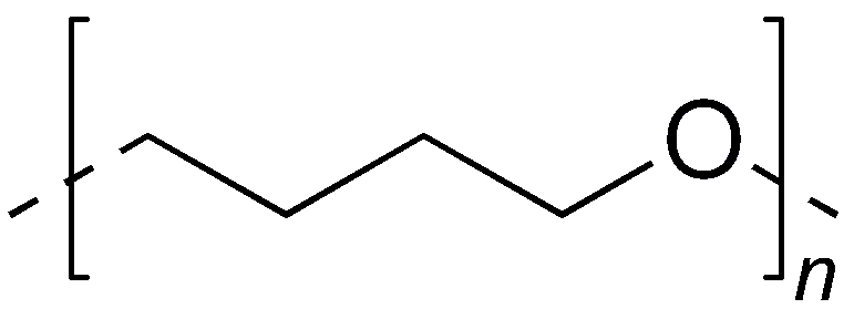 chemical structure of polytetrahydrofuran (polyTHF)